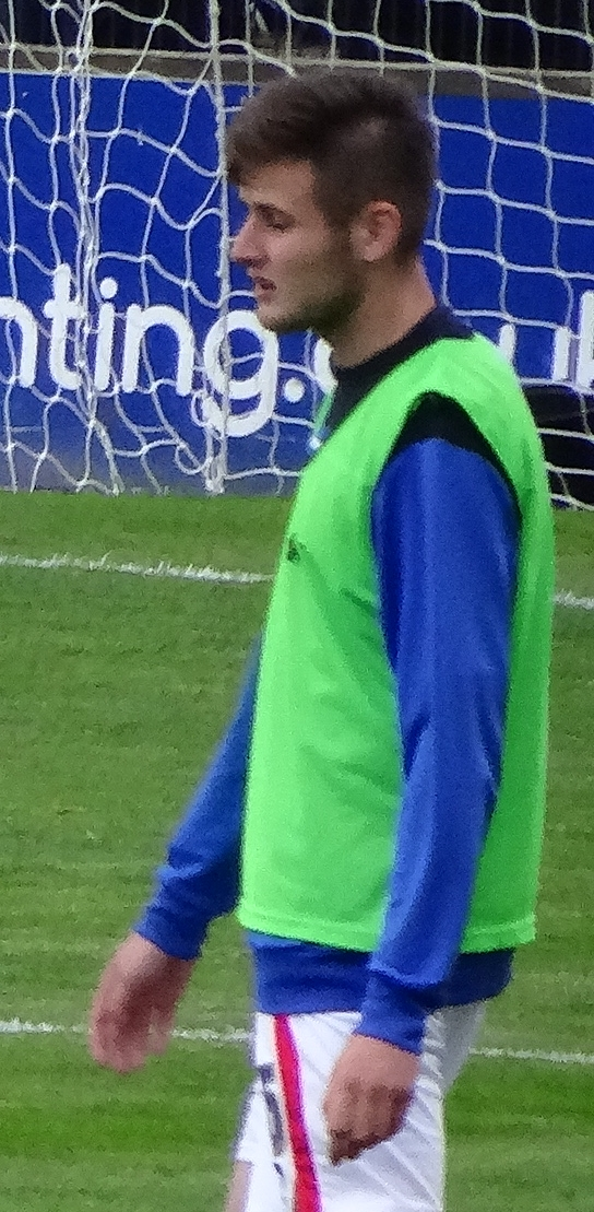 Macaulay Gillesphey wamring up for Carlisle United against York City at Bootham Crescent, York on 19 September 2015